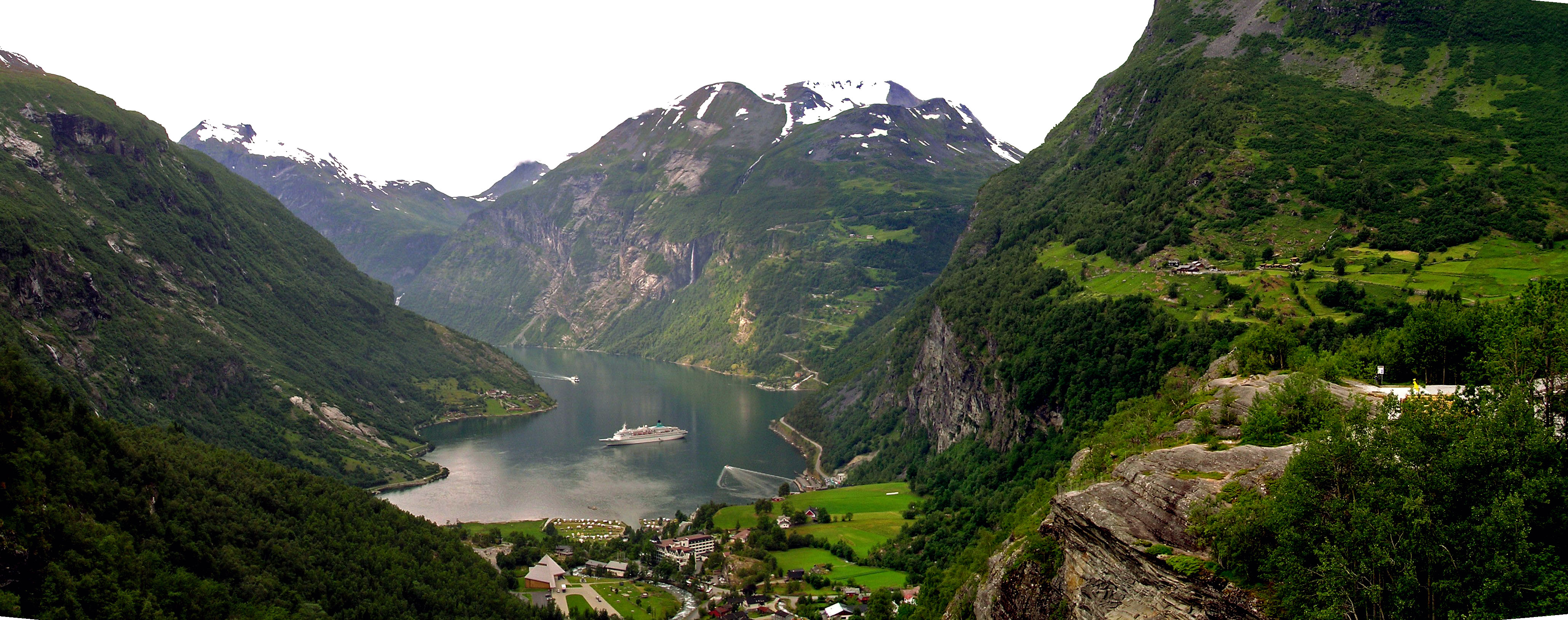 Photo taken on the same day the fjords of Norway became a World Heritage Site.